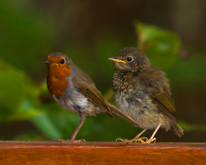 An adult Robin from Gran Canaria, subspecies marionae which is exclusive to this island.